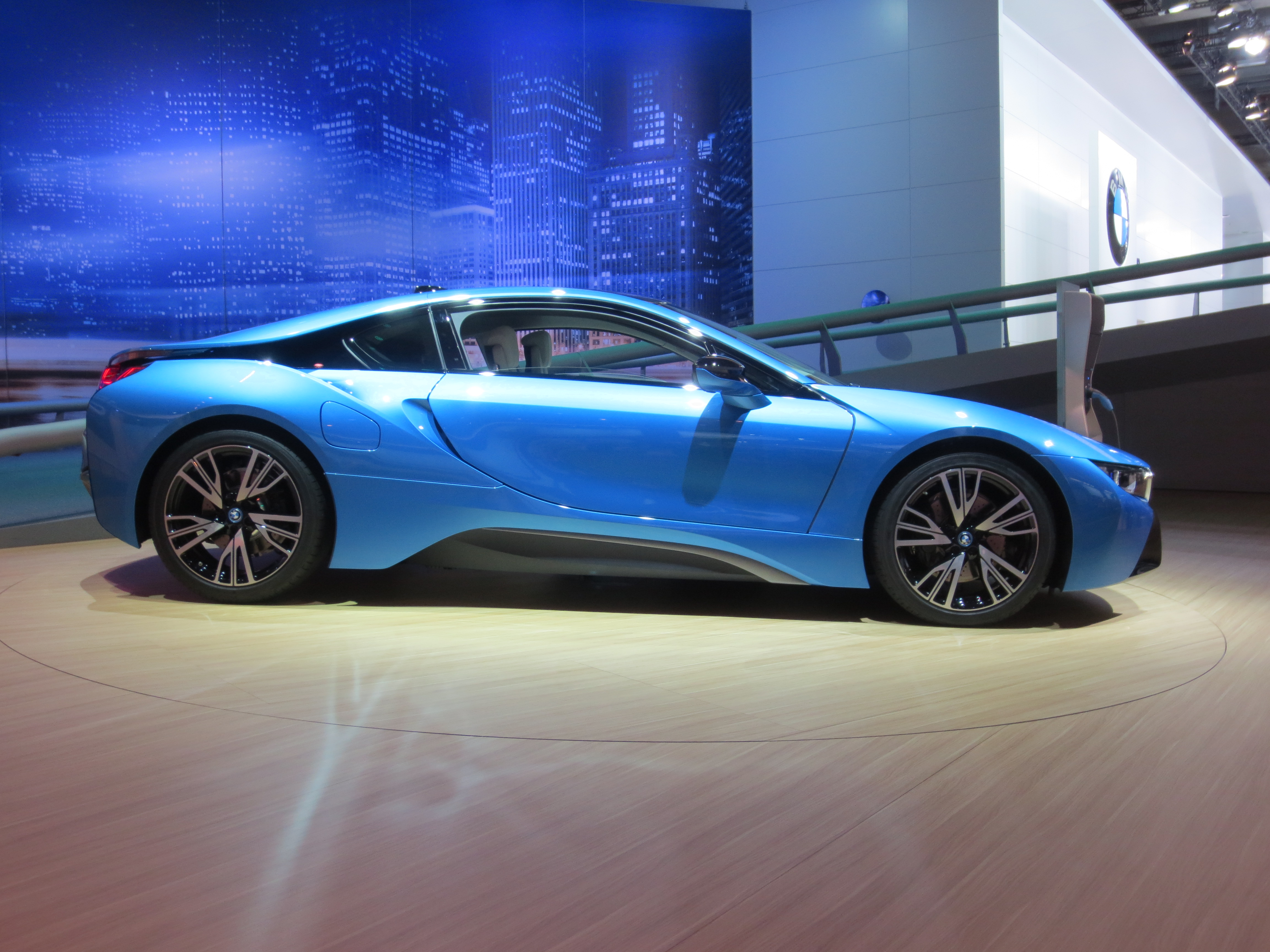 Subject: BMW i8 Author: Luc106 Date:September 17th, 2013 Event: IAA 2013 Place/Country: Frankfurtermesse, Frankfurt am Main (Deutschland) I release all rights in the public domain. Licensing